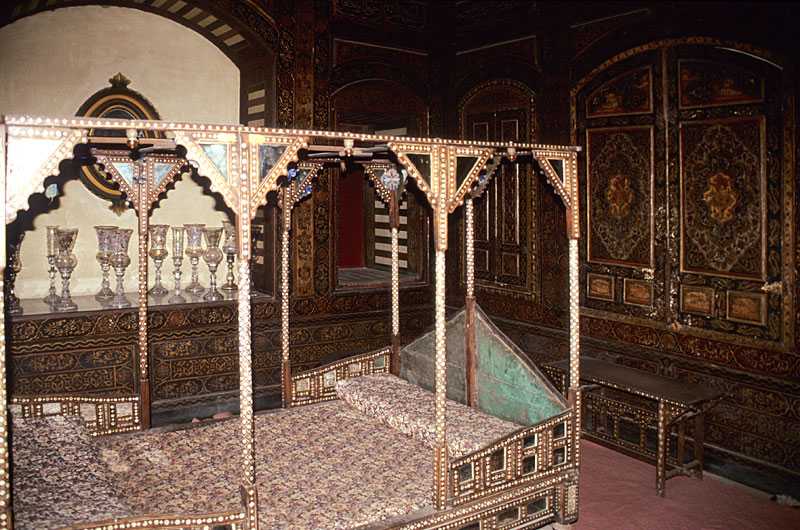 Gayer-Anderson Museum, Damascus room, Cairo, Egypt